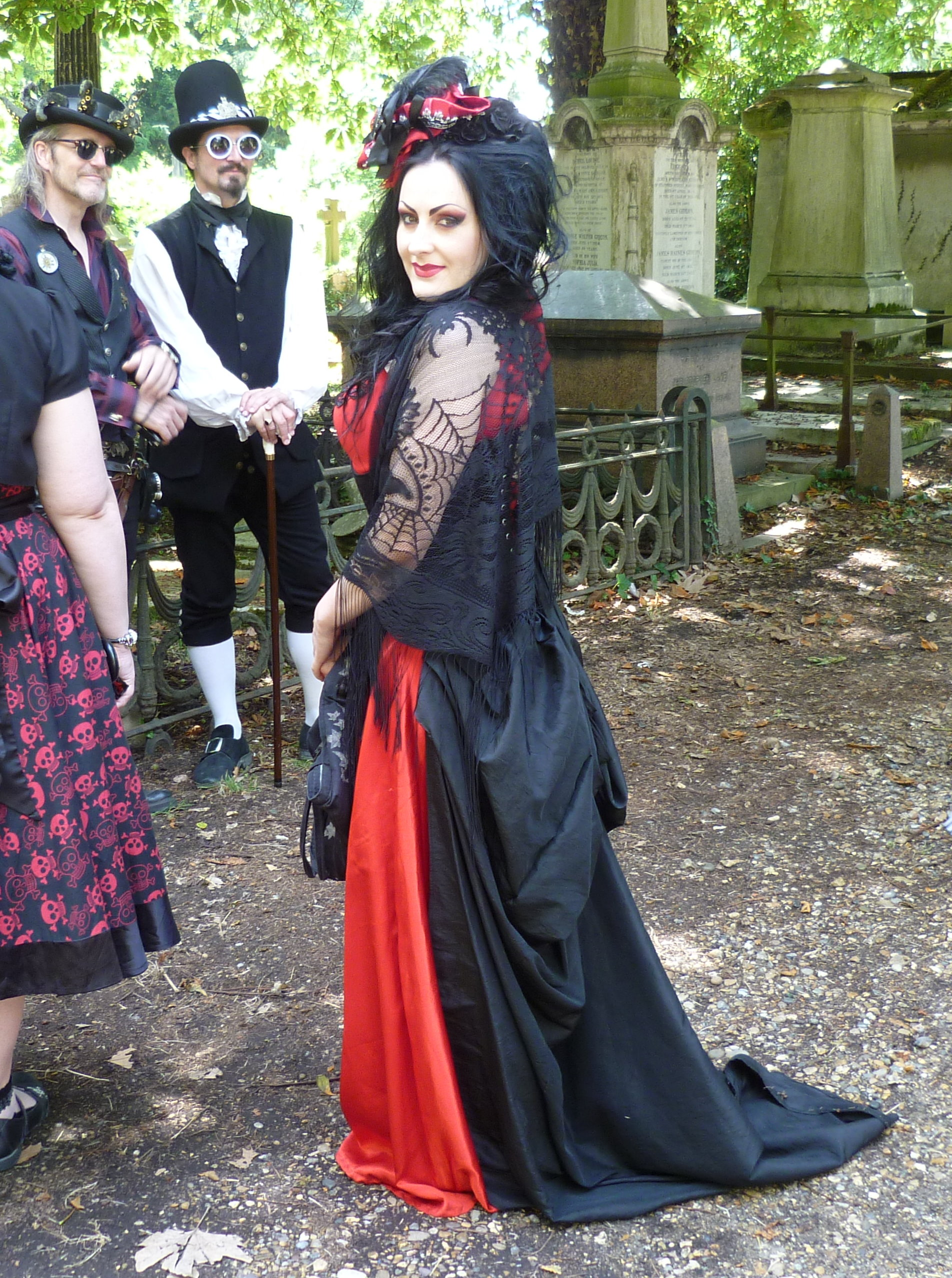 A woman in Goth costume at Kensal Green Cemetery open day 4 July 2015